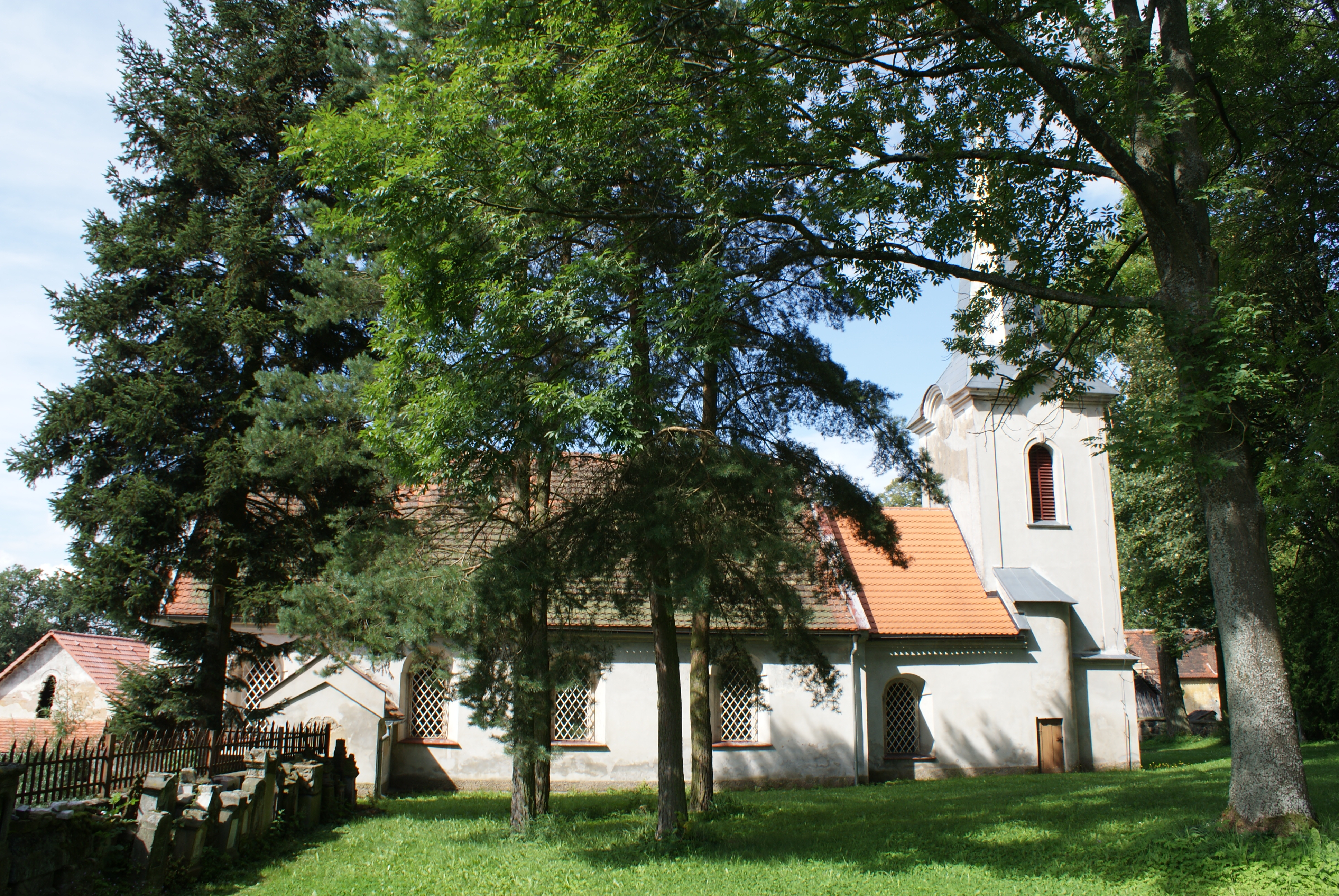 Prádlo, a village in Plzeň-South District, Czech Republic, Church and cemetery